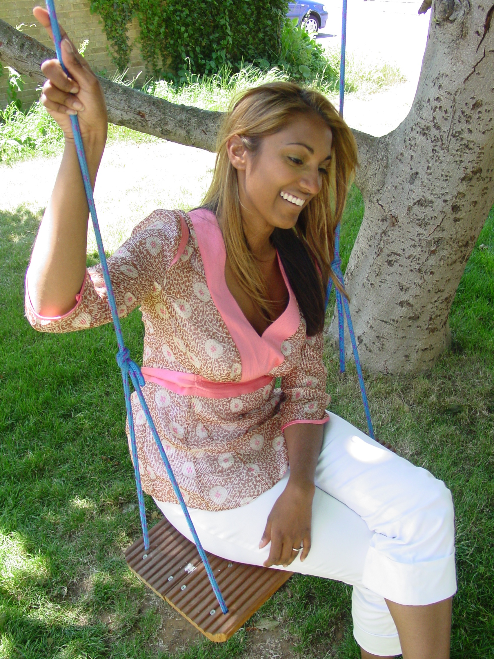 Seetha Hallett while filming A Place by the Sea